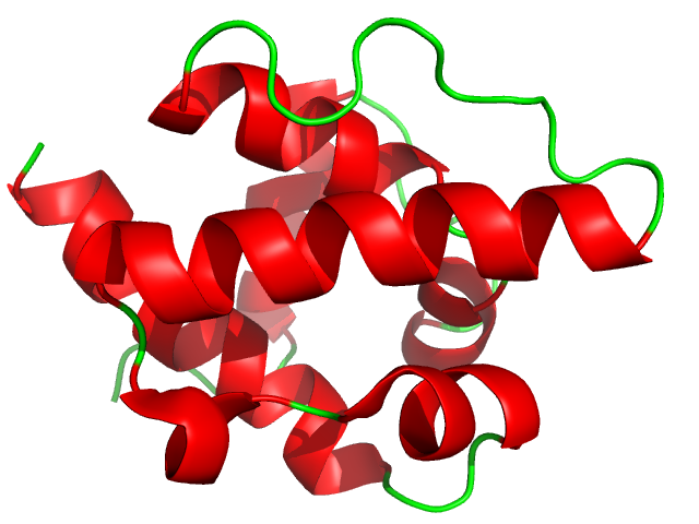 Structure of the CH domain of calponin